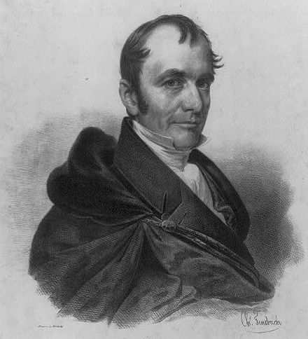 John D. Dickinson, New York Congressman